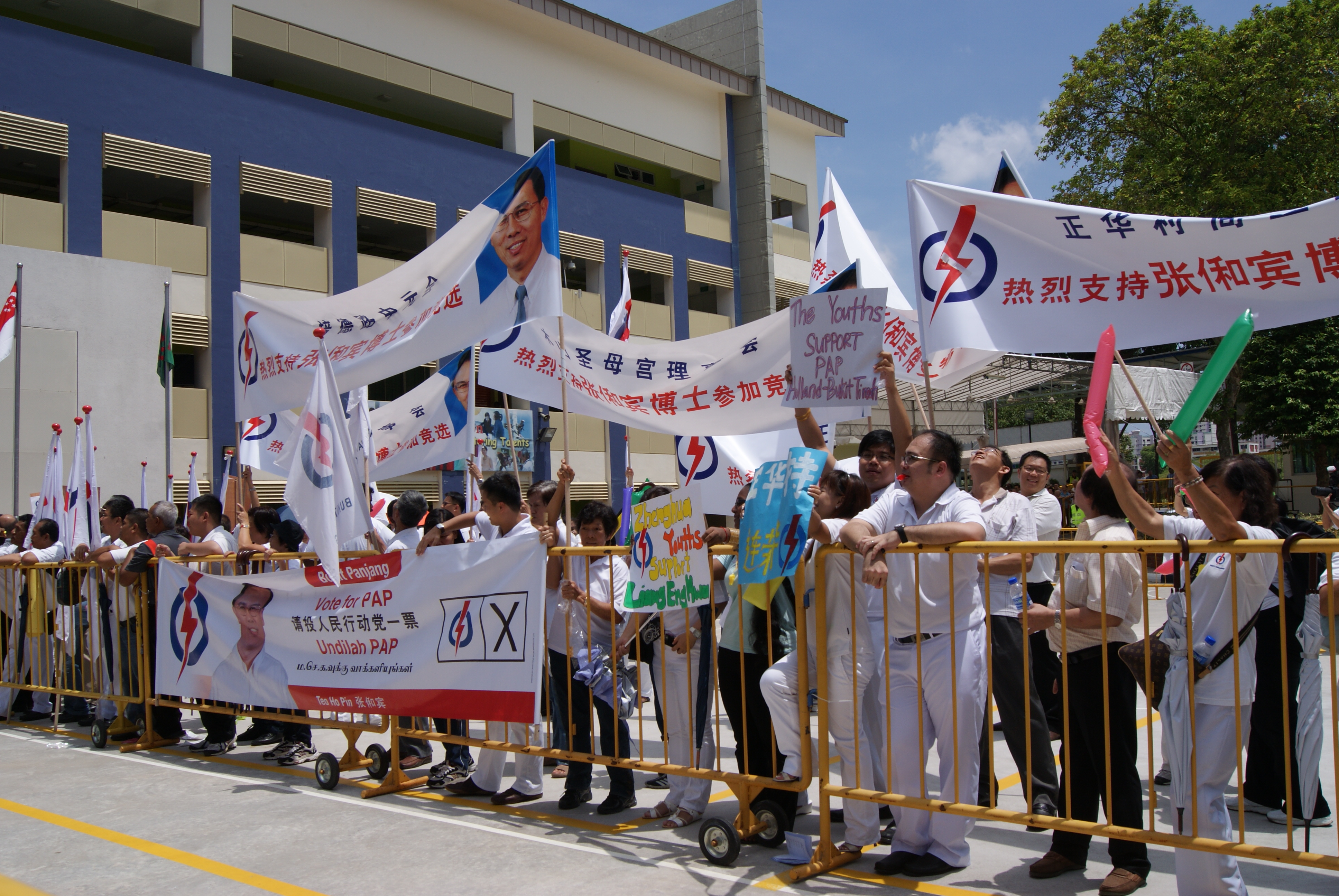 People's Action Party supporters at Greenridge Secondary School in Bukit Panjang, Singapore, which was used as the nomination centre for Bukit Panjang Single Member Constituency and Holland-Bukit Timah Group Representation Constituency during the Singaporean general election, 2011.